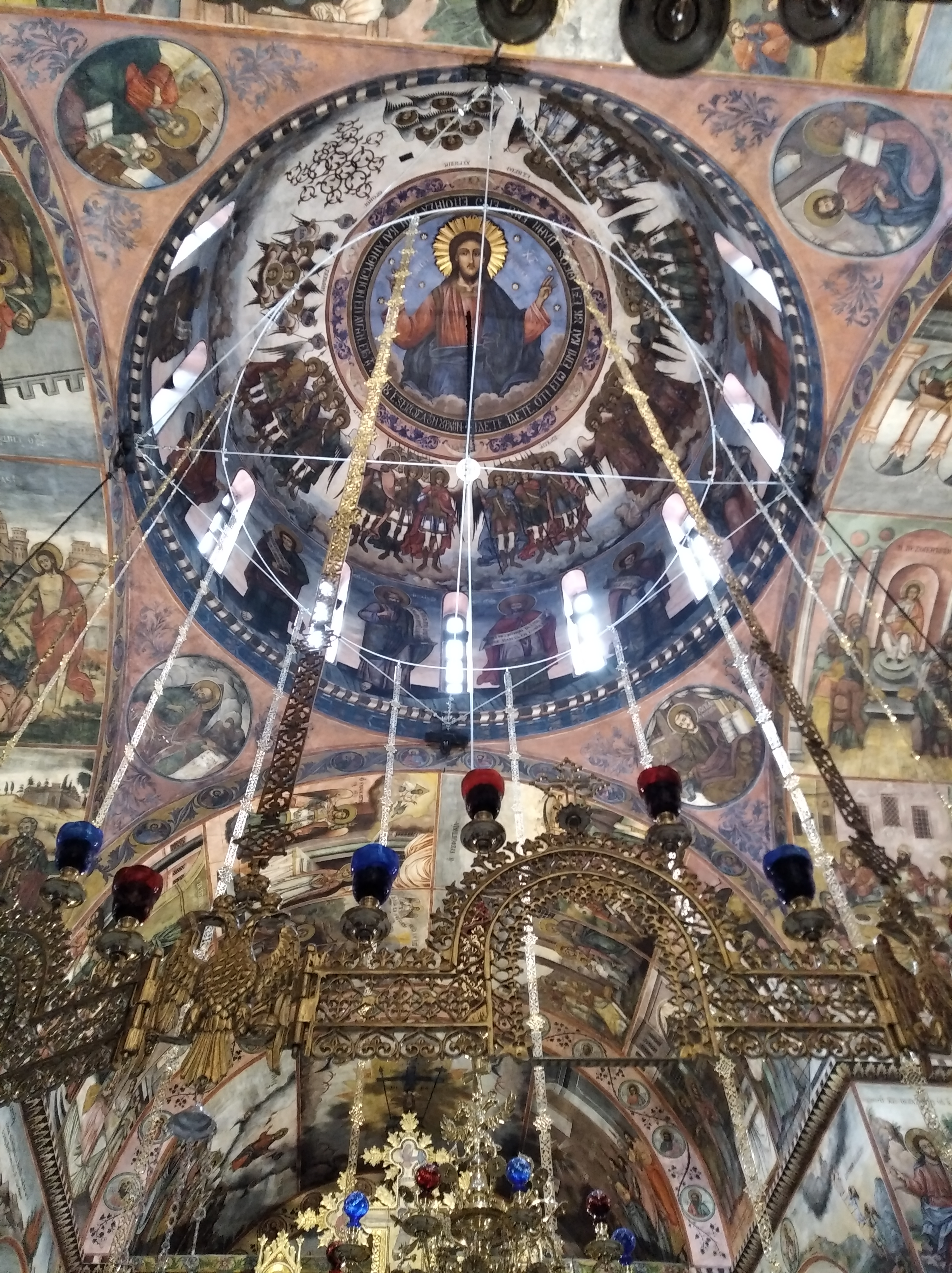 The view from inside of the Bachkovo monastery.